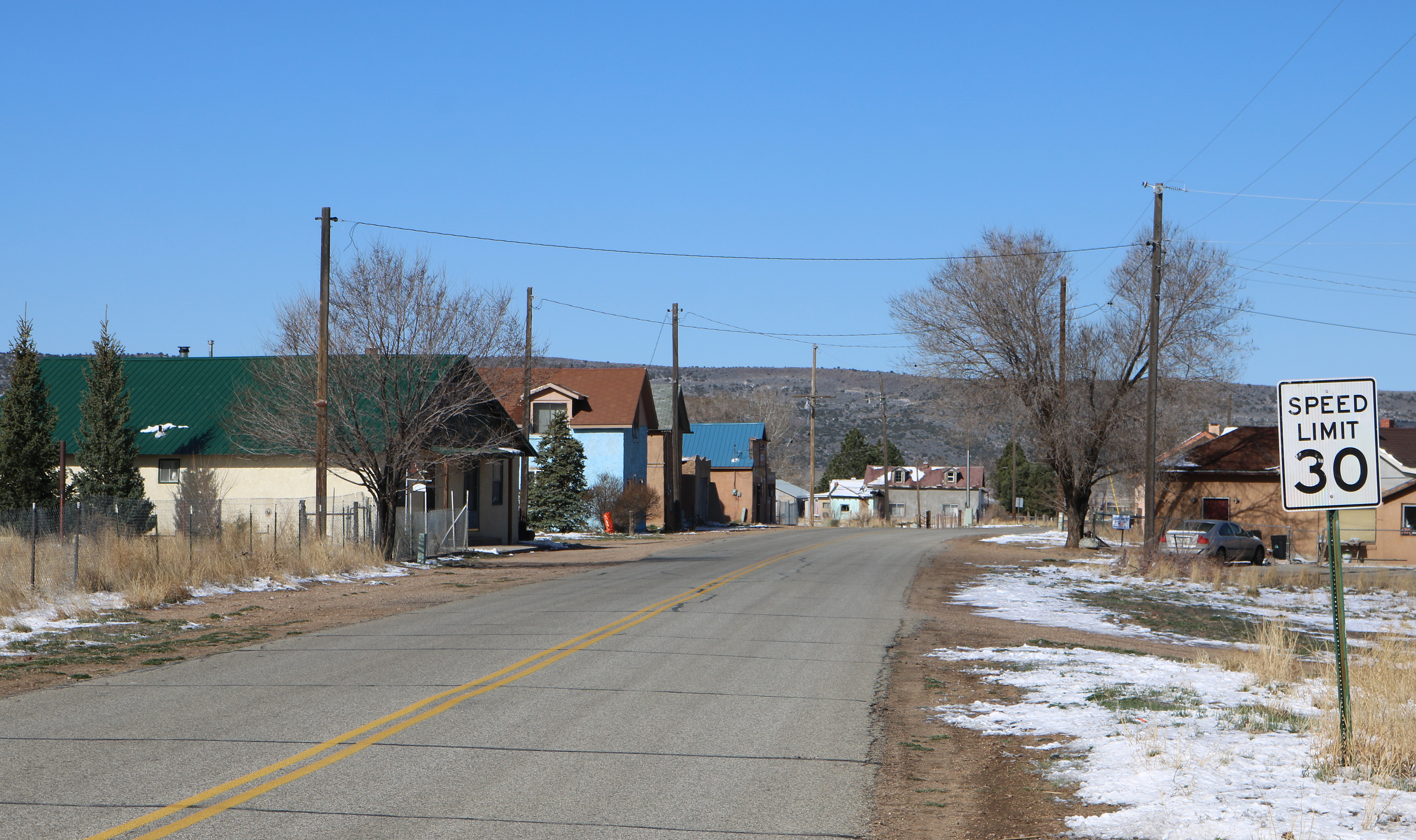 A view of the central part of Chama, Colorado. The view is to the west along County Road L.7, also known as Whiskey Pass Road.